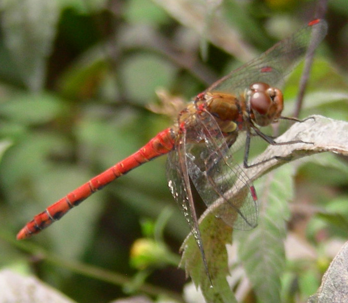 Dragonfly Sympetrum striolatumi to Parc de la Tete d'Or in Lyon, Rhône, France.